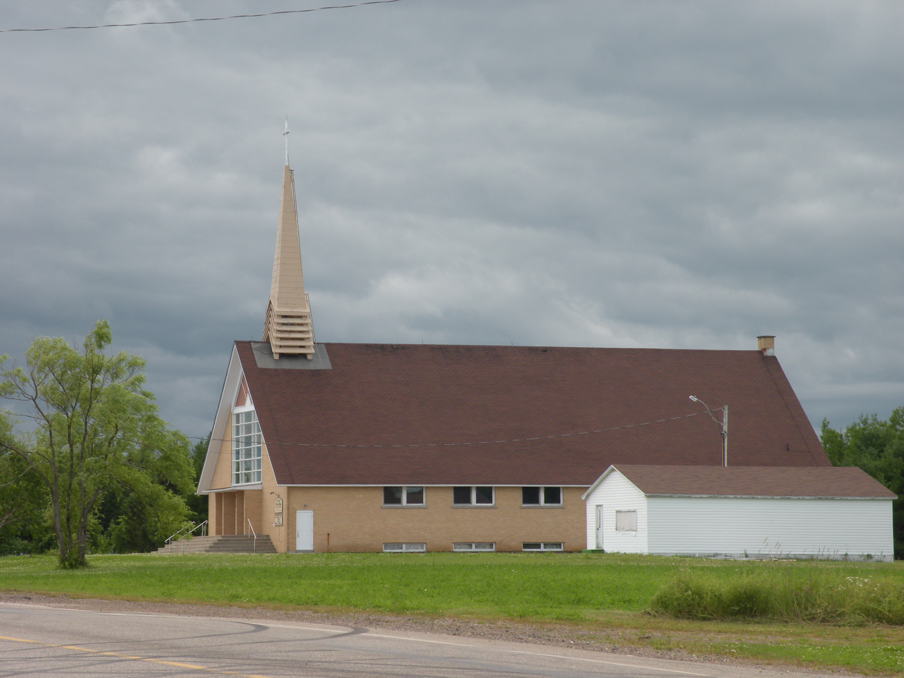 The Notre-Dame-des-Érables church in the eponymous village in New Brunswick, Canada.